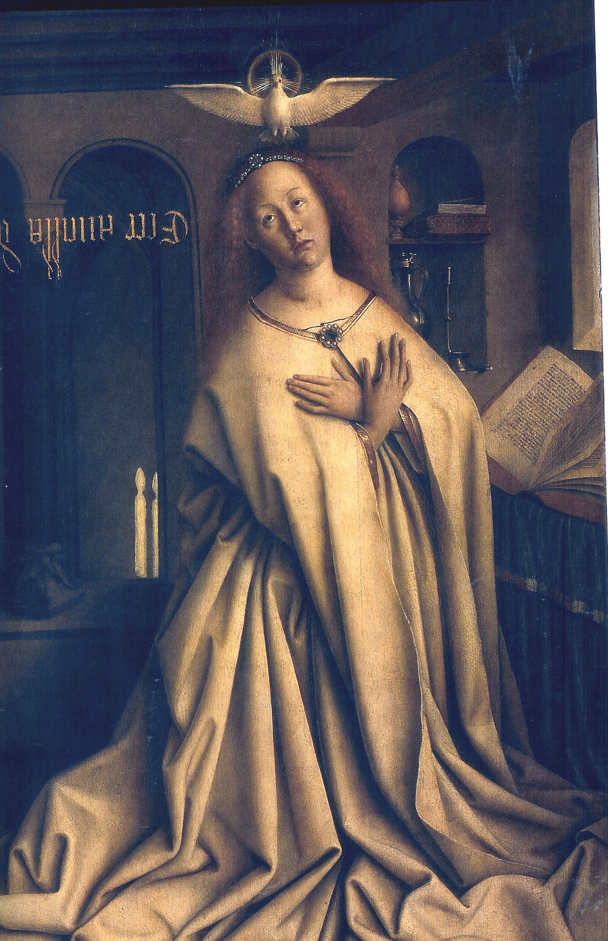 detail: The Annunciation